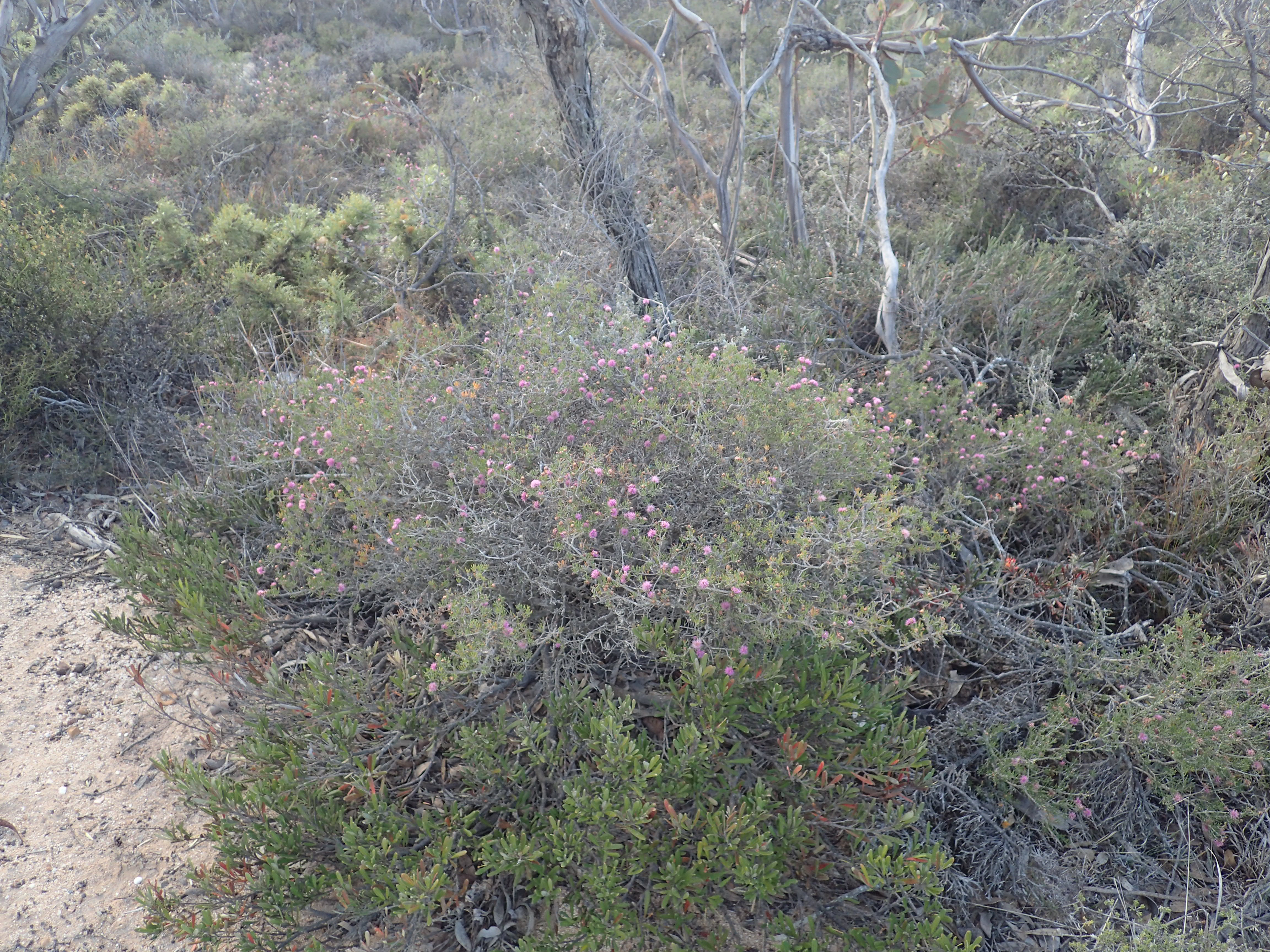 Melaeluca concinna growing near Ravensthorpe